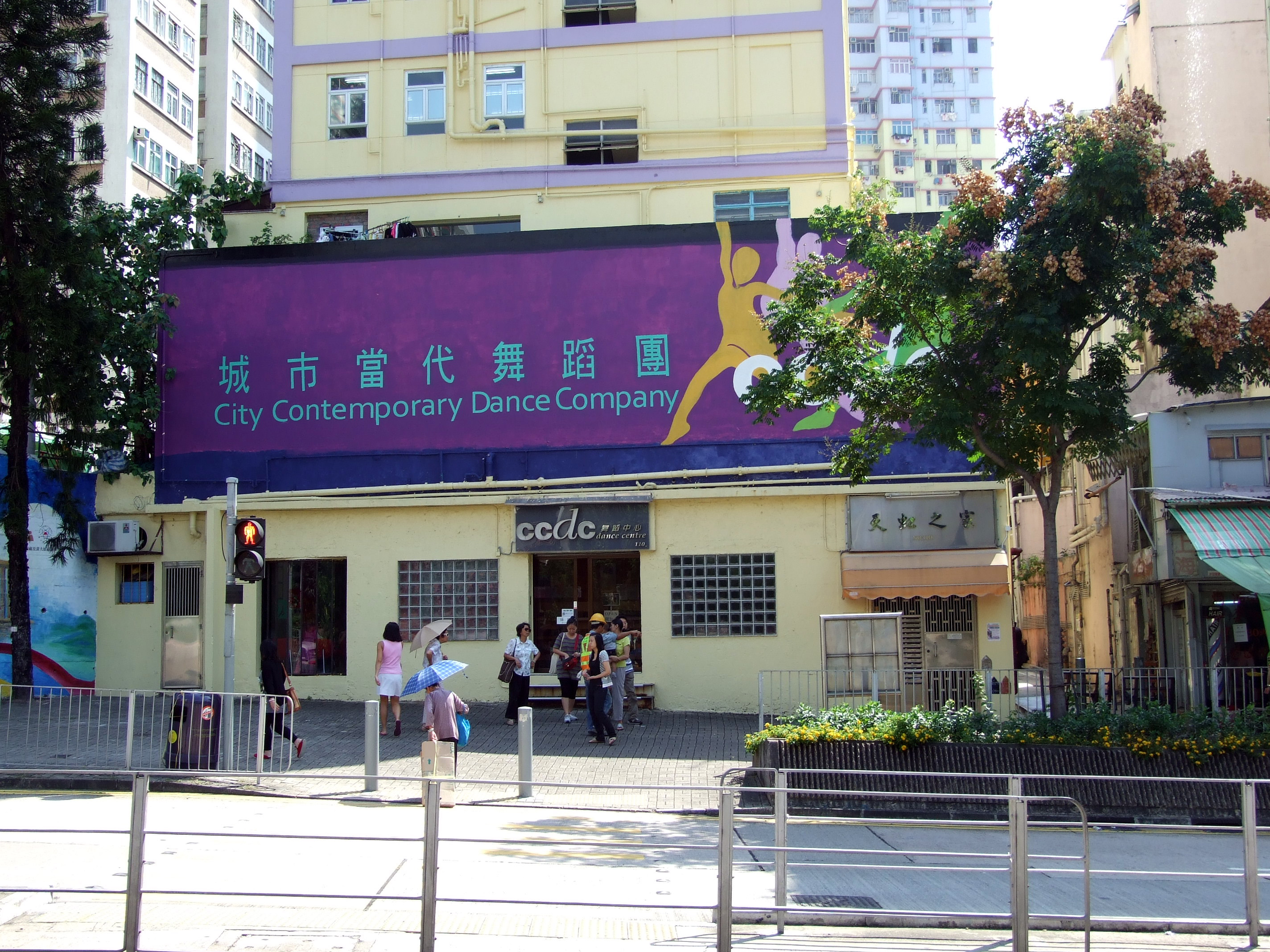 中文（香港）: 城市當代舞蹈團CCDC舞蹈中心 CCDC Dance Centre, G/F, 110 Shatin Pass Road, Wong Tai Sin, Kowloon, Hong Kong